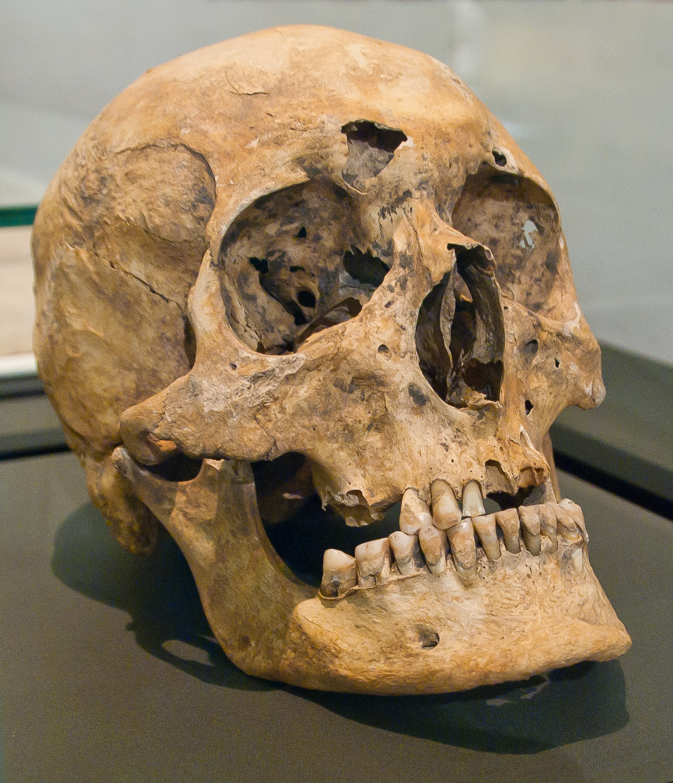 The skull of Odwinus (+998), abbot (981-998) of Saint Bavo's abbey in Ghent